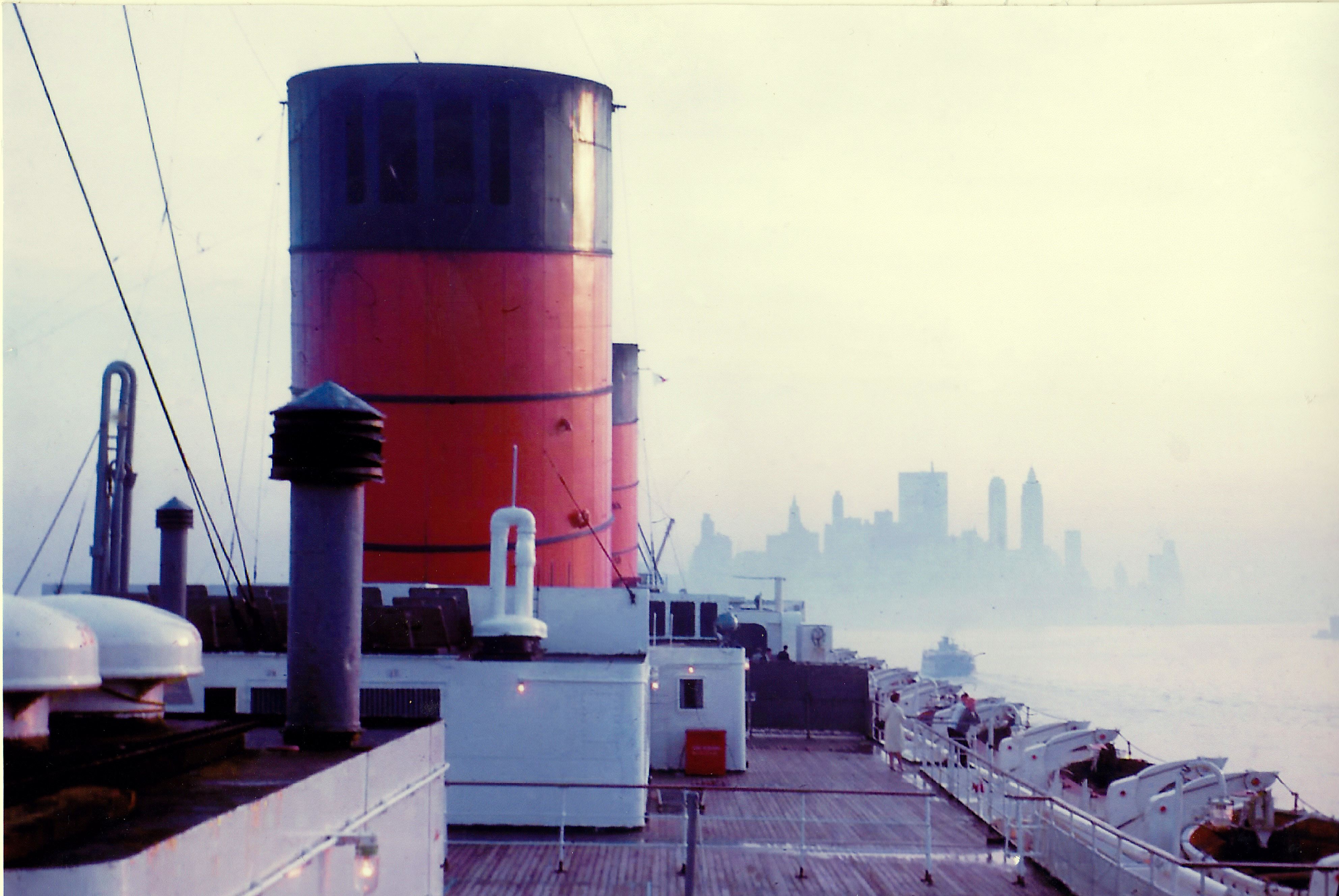 RMS Queen Elizabeth entering New York harbour in 1965, taken from the boat deck, early morning.